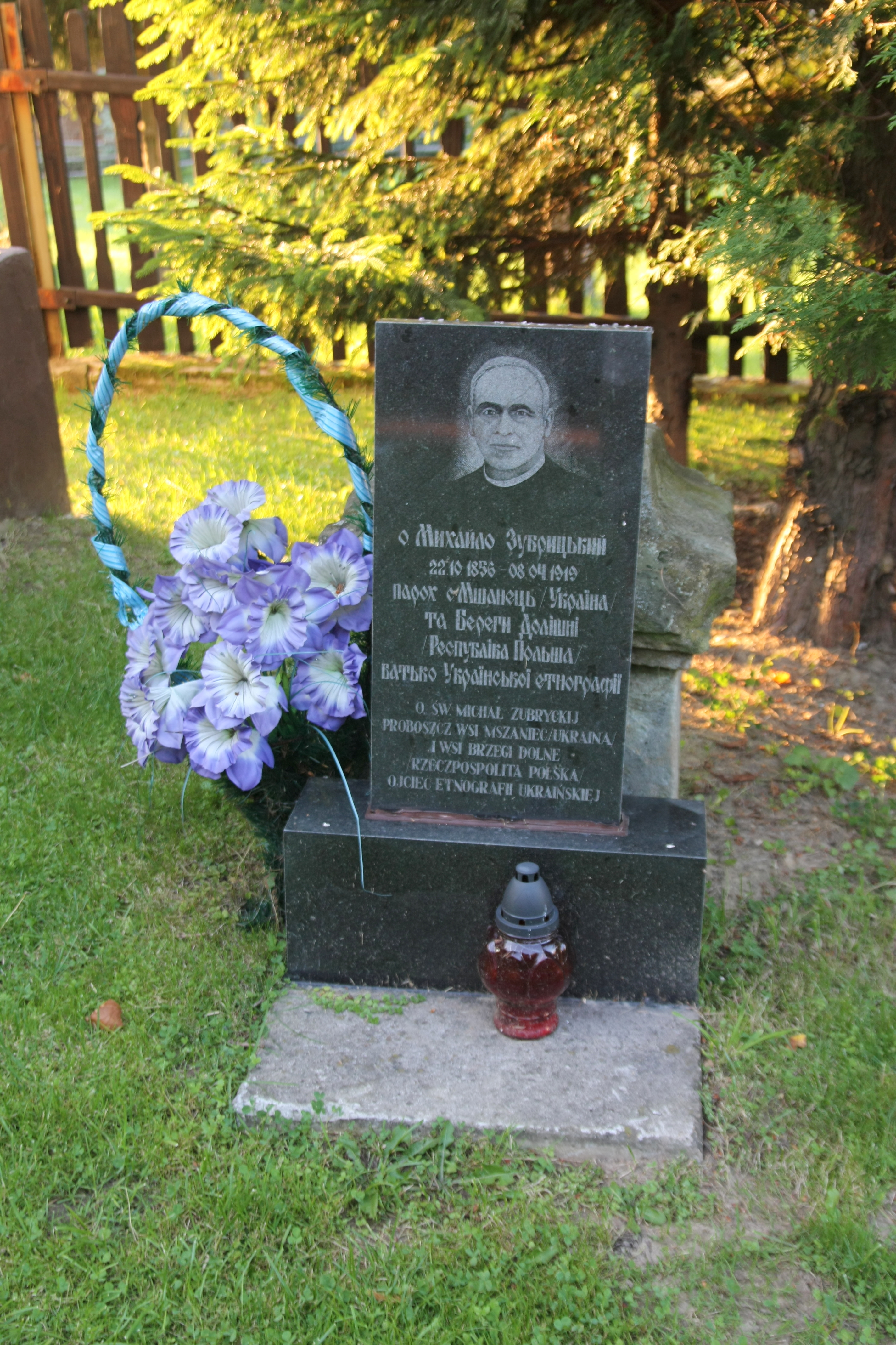 Grave in Brzegi Dolne.